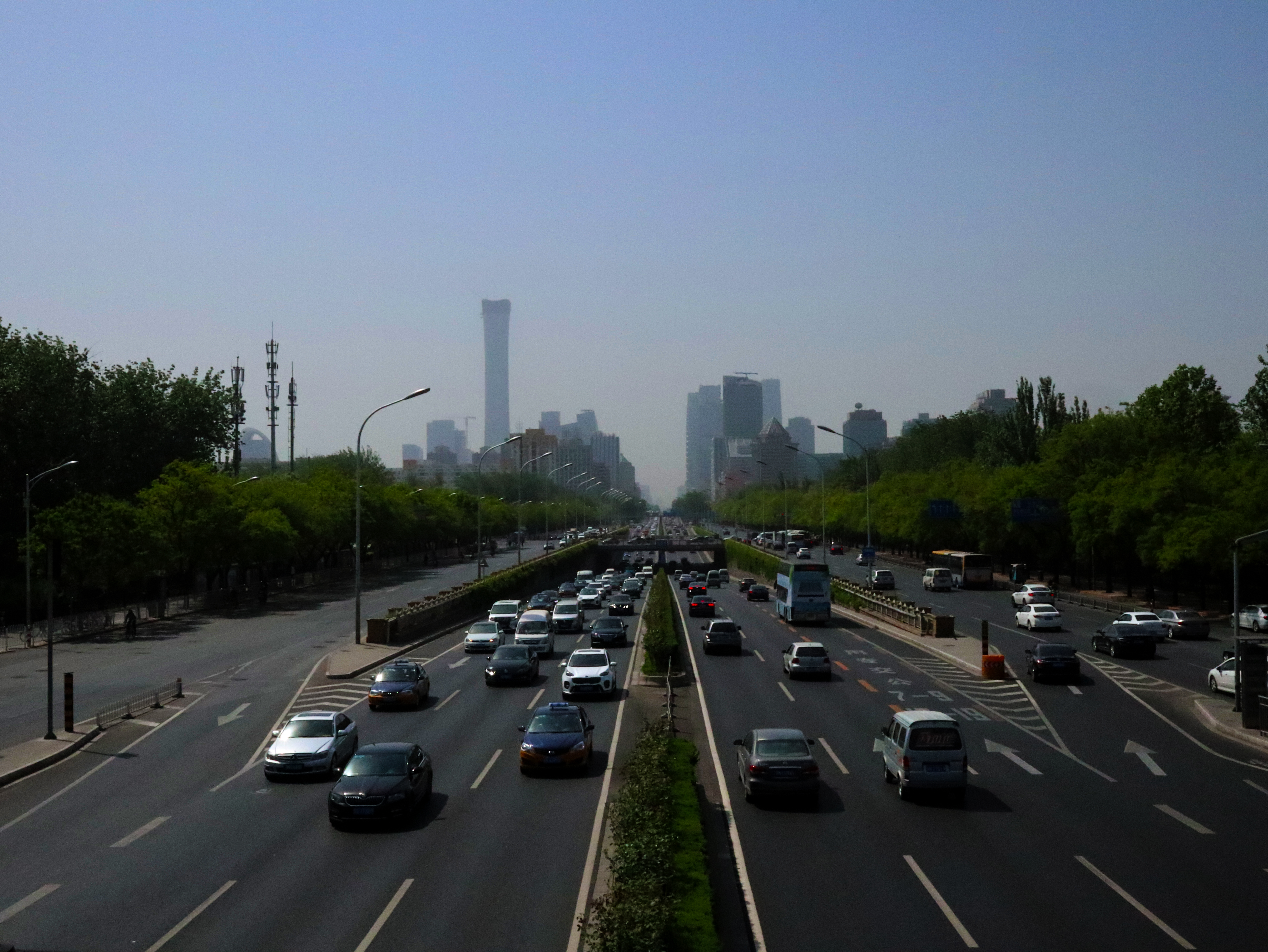 From North Road of East 3rd Road(Beijing) viewing Guomao CBD